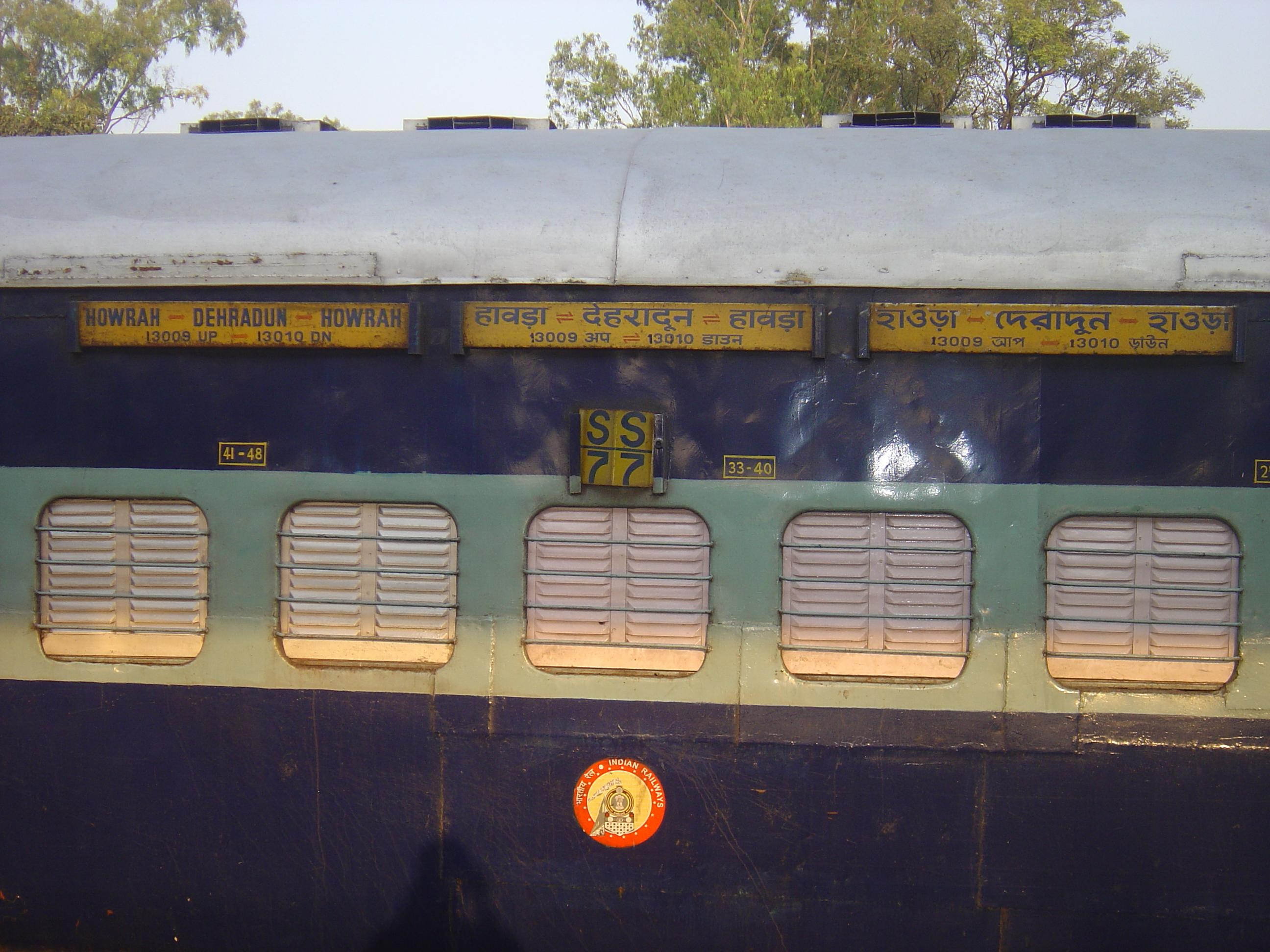 13010 Doon Express 2